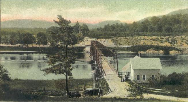 Toll bridge between Dixfield and West Peru, Maine